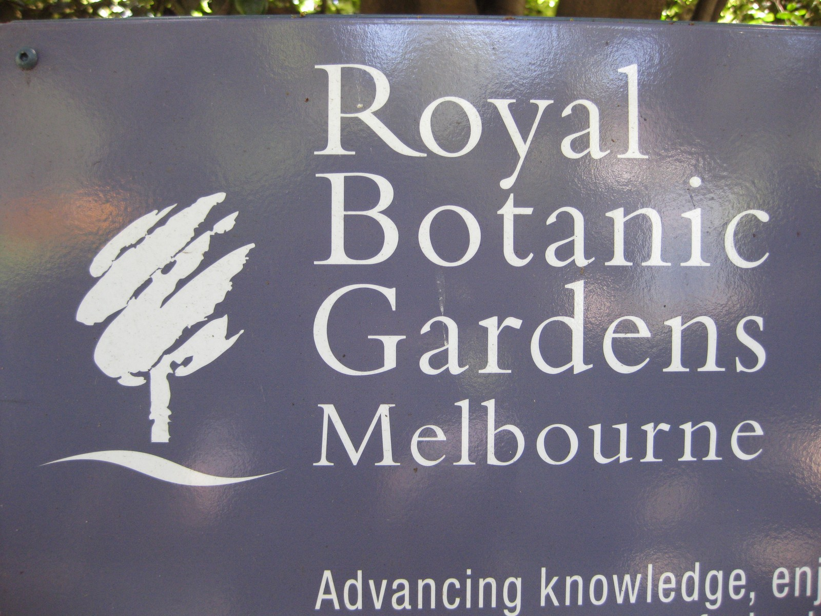 Photographed at the Royal Botanic Gardens Melbourne (Australia) in December